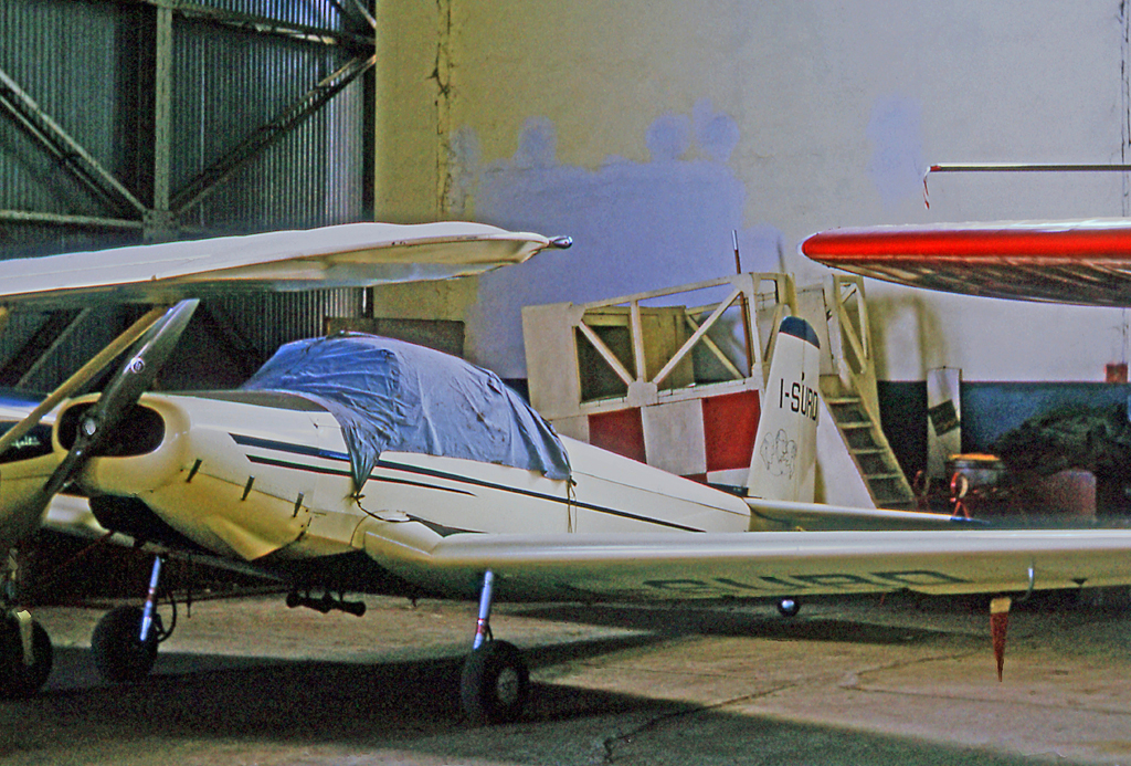 Aviamilano P.19 Scricciolo I-SURD at Milano Bresso airport in 1965